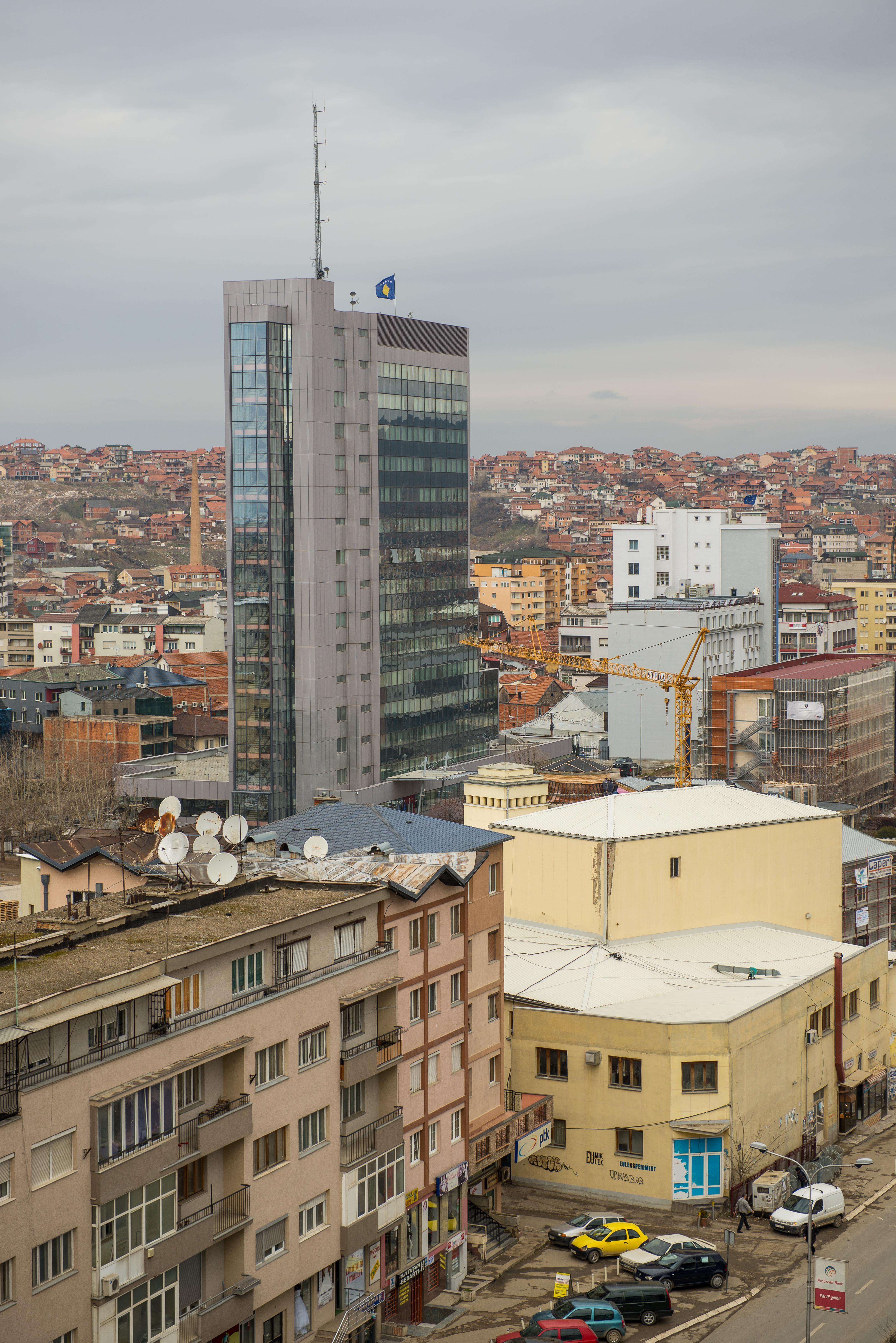 Kosovo Goverment building seen from Hotel Sirius. To the right, the national theater.